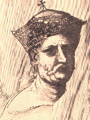 portrait of the Georgian king George III of Imereti (1605–1639), drawn by an Italian traveller di Castelli.